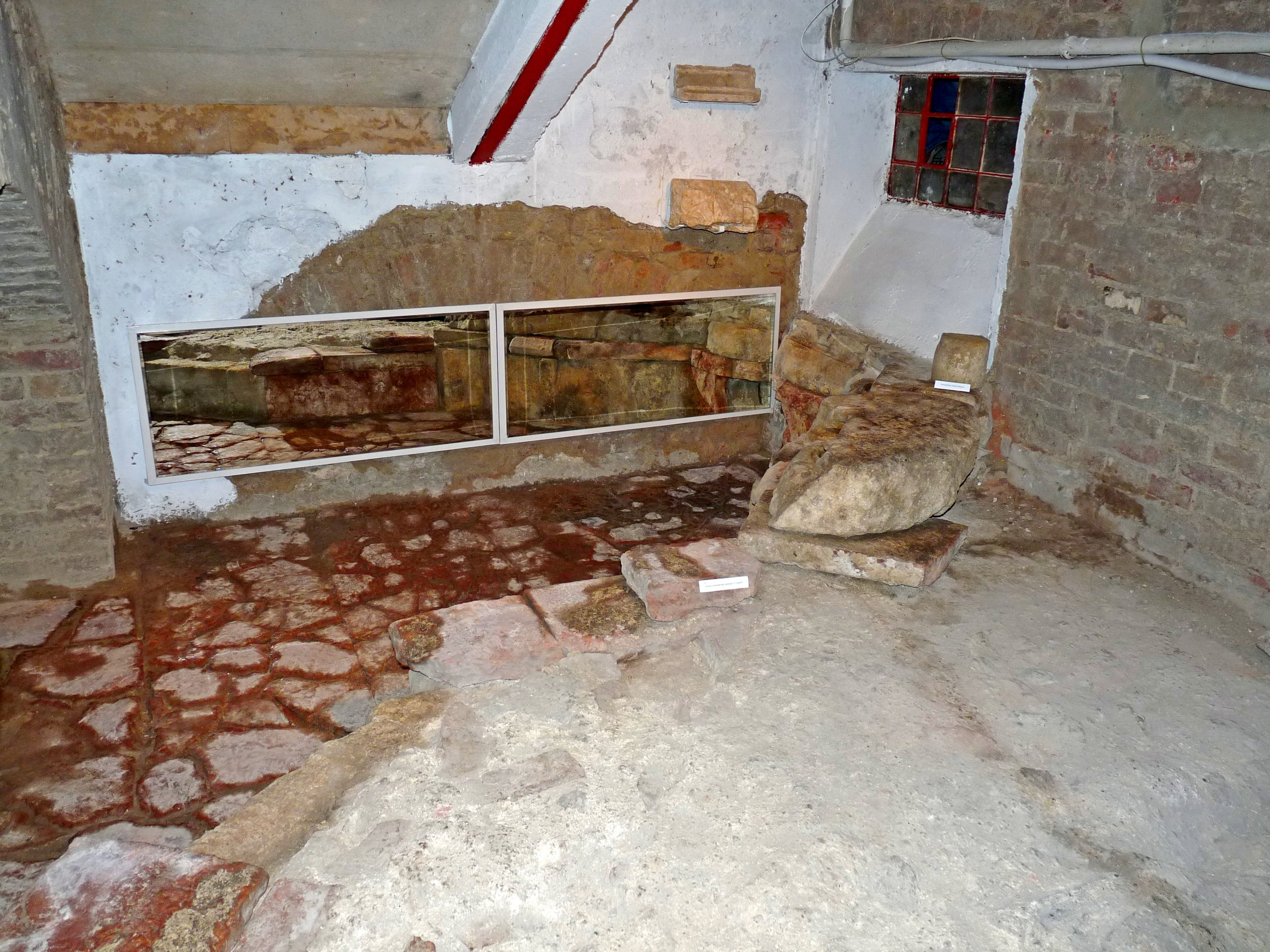 The remains of the royal - later queenly - castle built in the thirteenth century in the vault under the assembly hall of the Protestant rectory in Óbuda. You can see a portion of the north wall of the former chapel, a piece of red marble floor of Tardos and some carved stones for building.